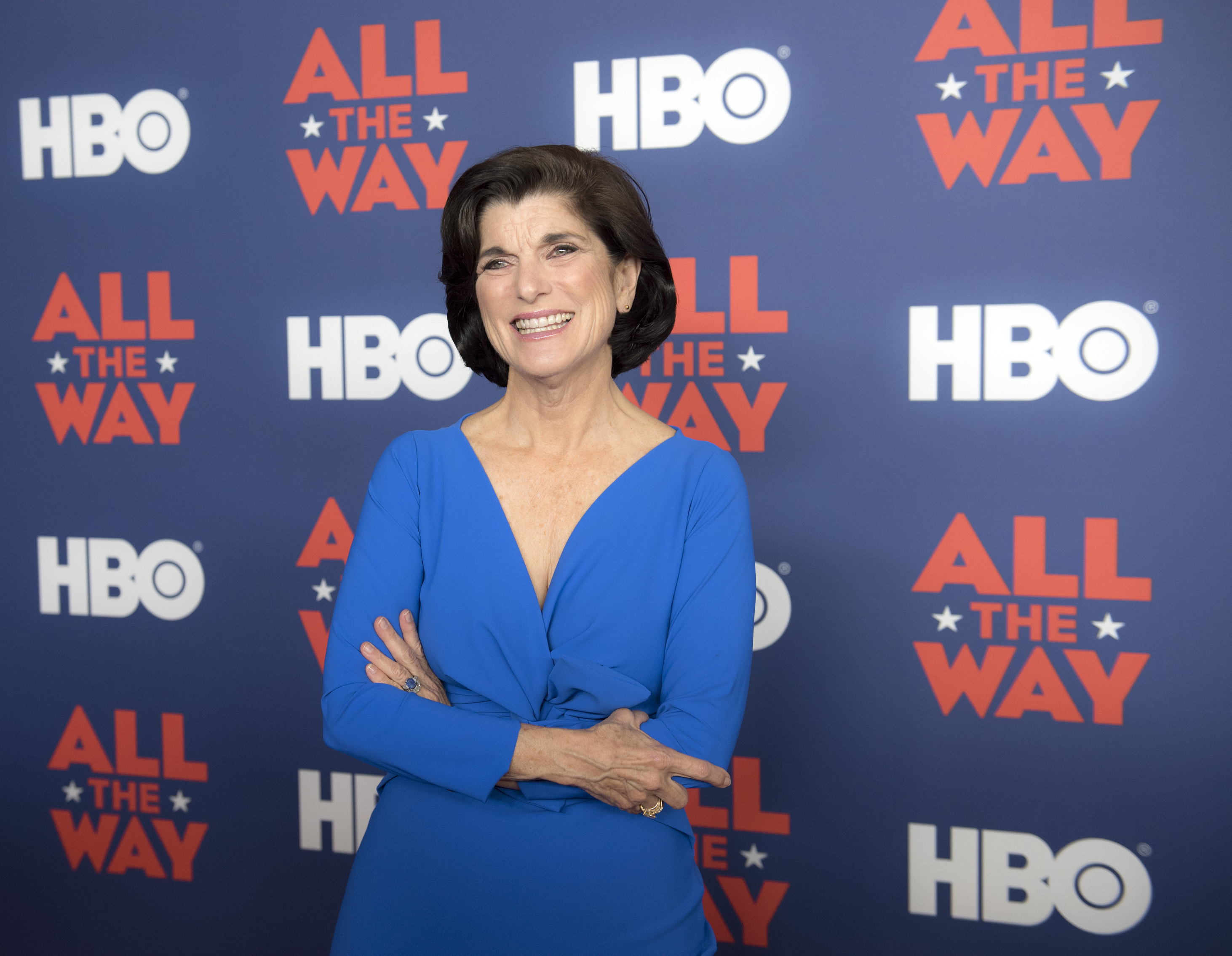 Luci Baines Johnson on the red carpet. In conjunction with HBO and the LBJ School of Public Affairs, the LBJ Library held a special preview screening and discussion of the new HBO film "All the Way" starring Bryan Cranston in his Tony Award-winning role as Lyndon Johnson and Anthony Mackie as Martin Luther King, Jr. Following the screening of the film, writer Robert Schenkkan, director Jay Roach, actors Bryan Cranston and Anthony Mackie, and historian and consultant on the film Doris Kearns Goodwin, joined Library Director Mark Updegrove on stage for a discussion. The film will debut on HBO on May 21, 2016. LBJ Library photo by Jay Godwin